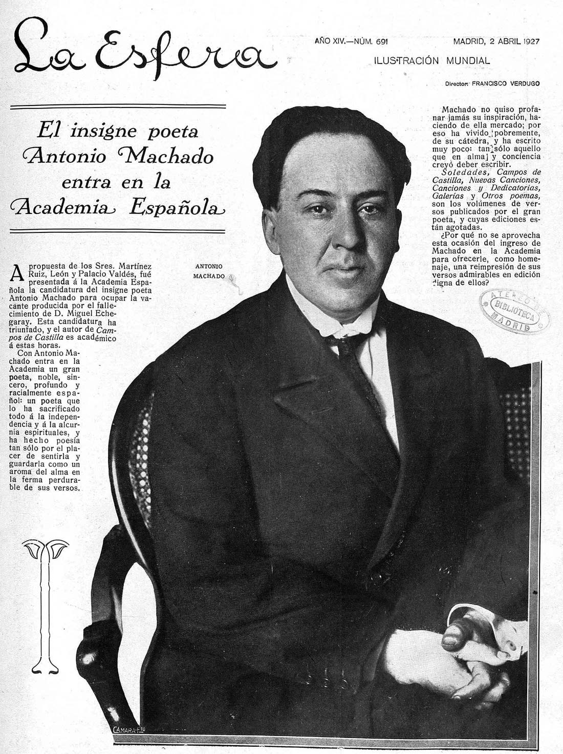 Front page of La Esfera 1927.04.02